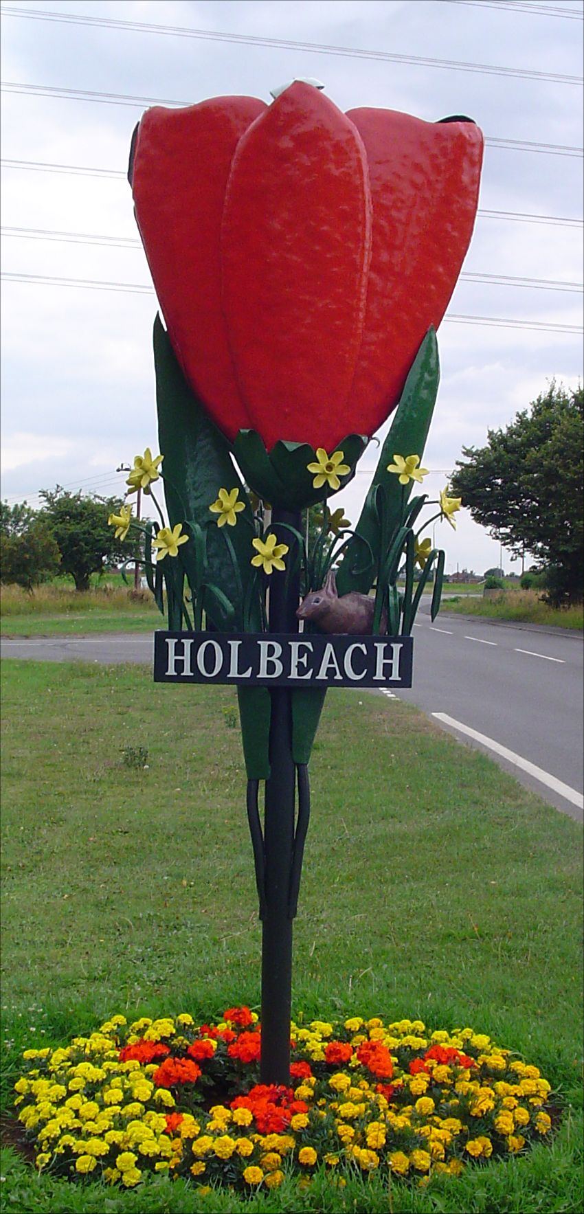 Signpost in Holbeach